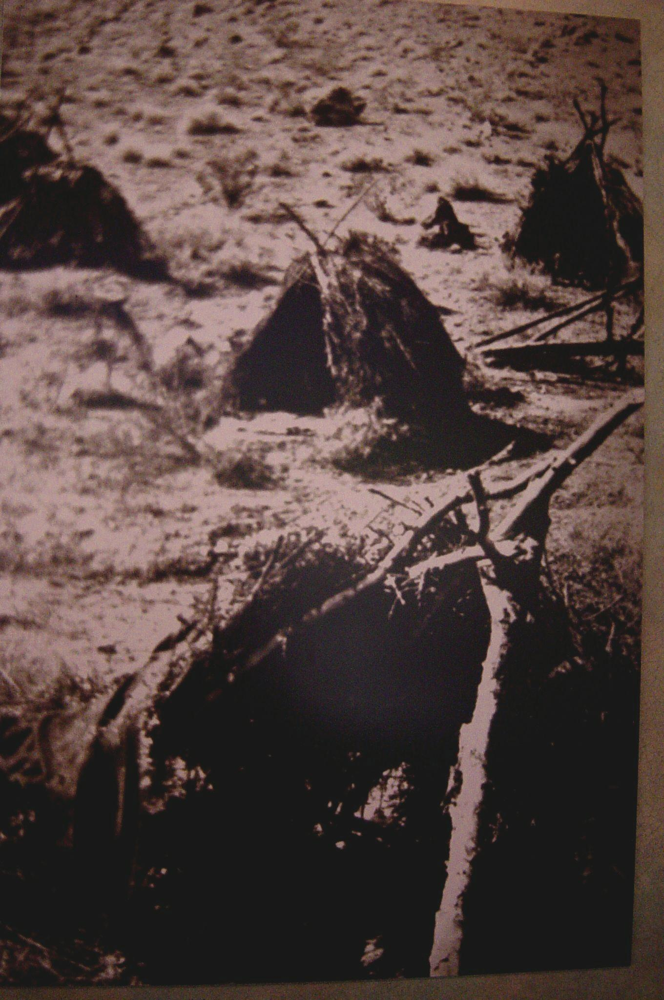 Southern Paiute kaun huts in Zion National Park